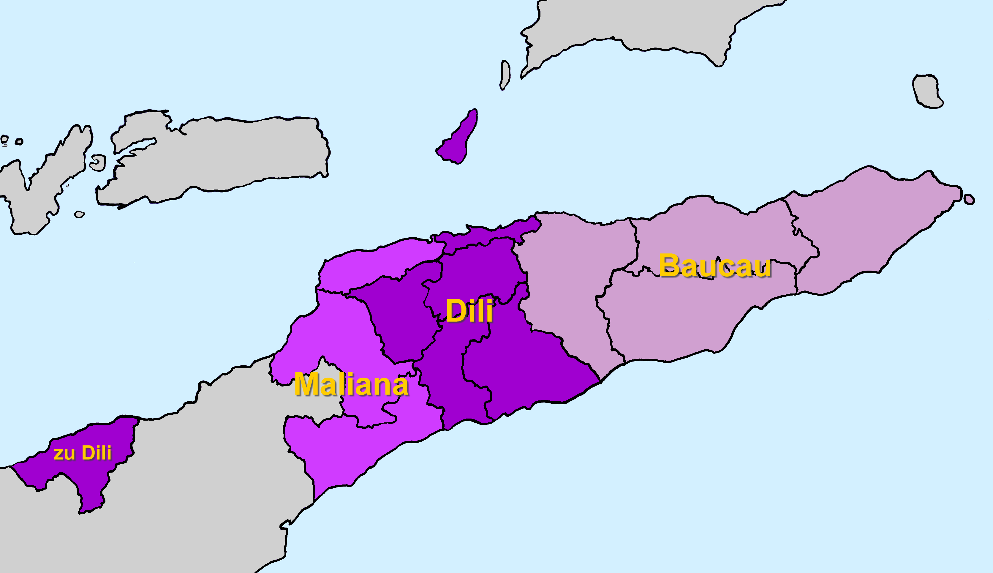 The dioceses of East Timor, borders since 2015